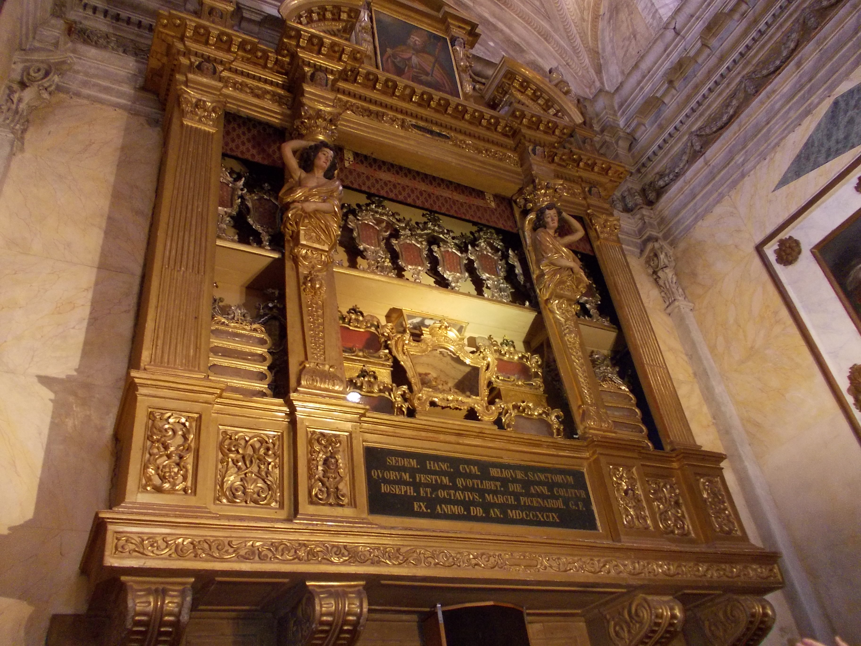 Torre de' Picenardi, interior of Church, Altar piece